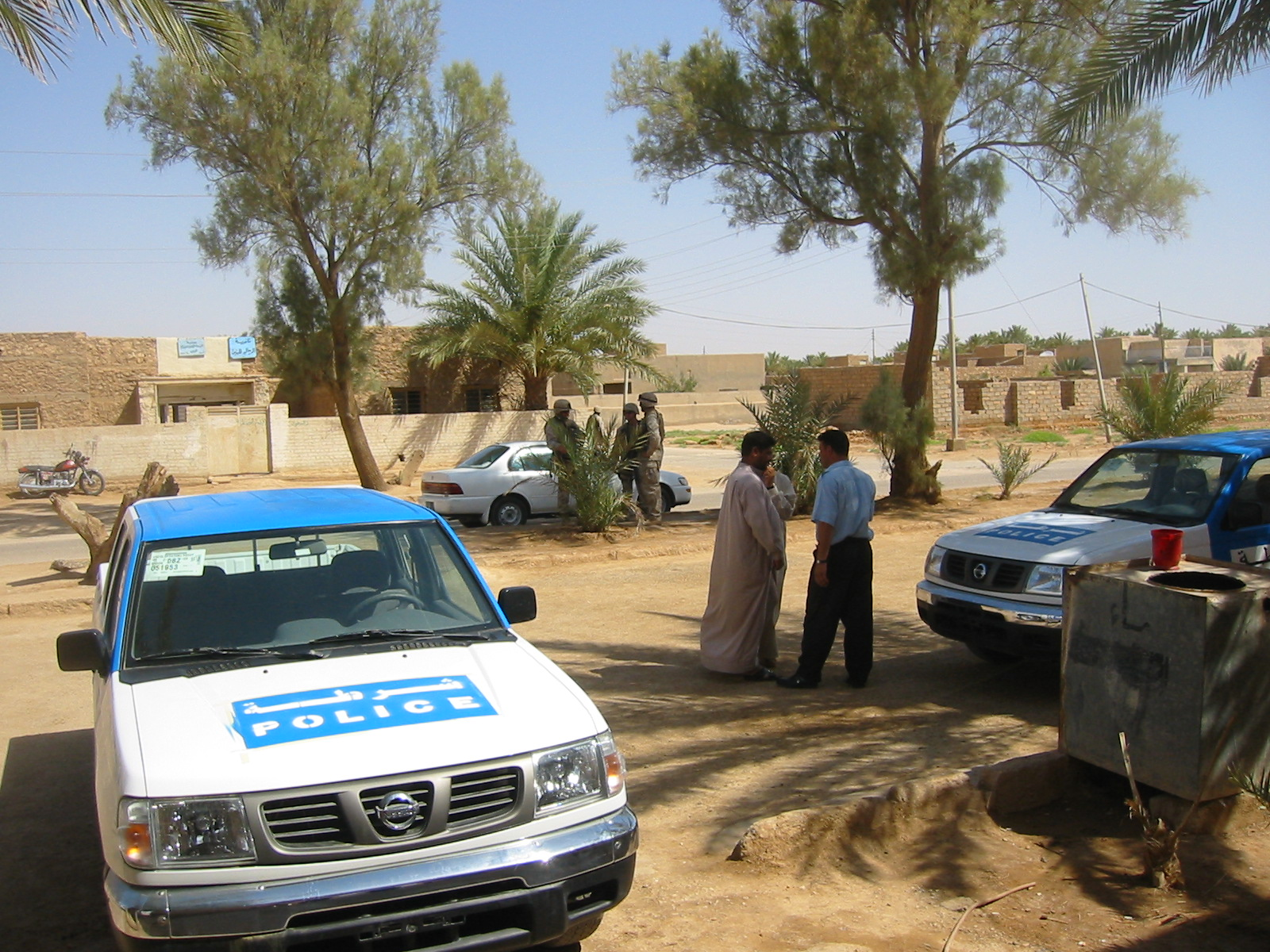 Street view of Ar Rahaliyah, Al Anbar, Iraq. Taken from the gate of the city police station during an American liaison visit in 2004.